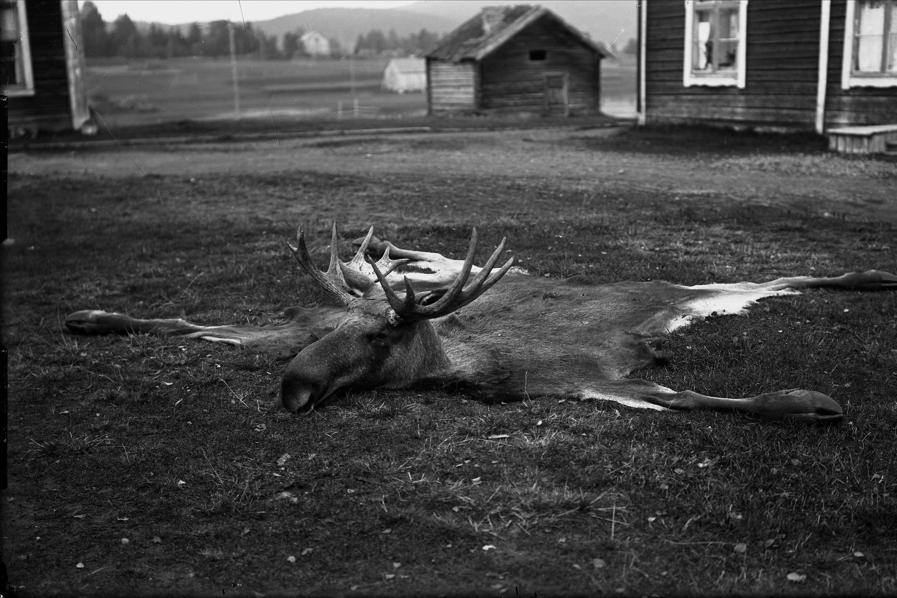 Depicted place: Ångermanland, Bodum (Sverige (SE))